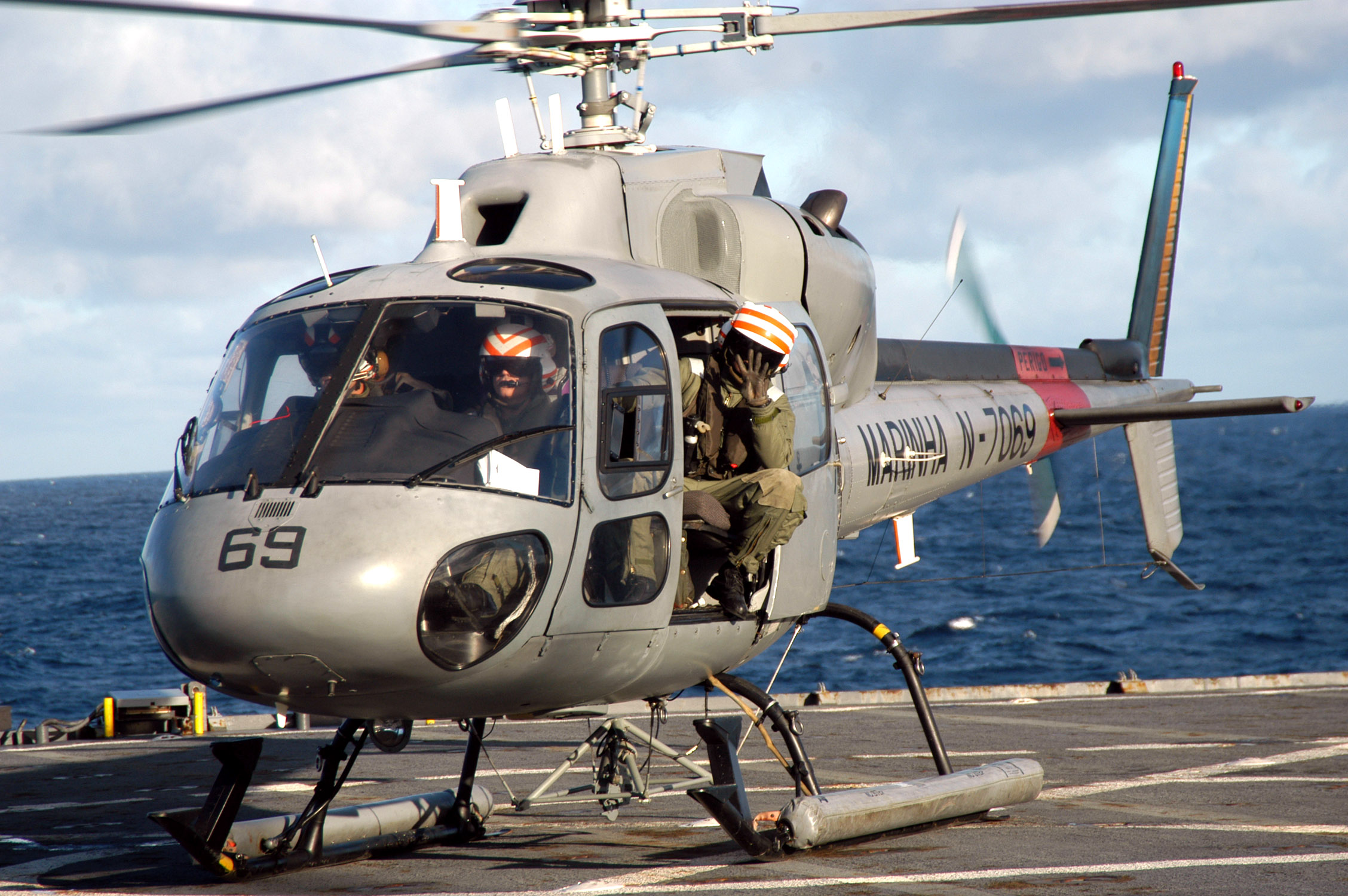 ATLANTIC OCEAN (May 5, 2007) — Crewmembers from a Brazilian navy helicopter prepare to take off from USS Pearl Harbor (LSD 52) during UNITAS exercises. Navies from Argentina, Brazil, Chile, Spain and the United States are participating in UNITAS Atlantic 48-2007 May 2-13 off the coast of Argentina. UNITAS enables the assembled forces to organize and conduct combined naval operations in a multinational task force and test its responsiveness to a variety of maritime scenarios. U.S. Navy photo by Mass Communication Specialist 2nd Class Alexia M. Riveracorrea (RELEASED)